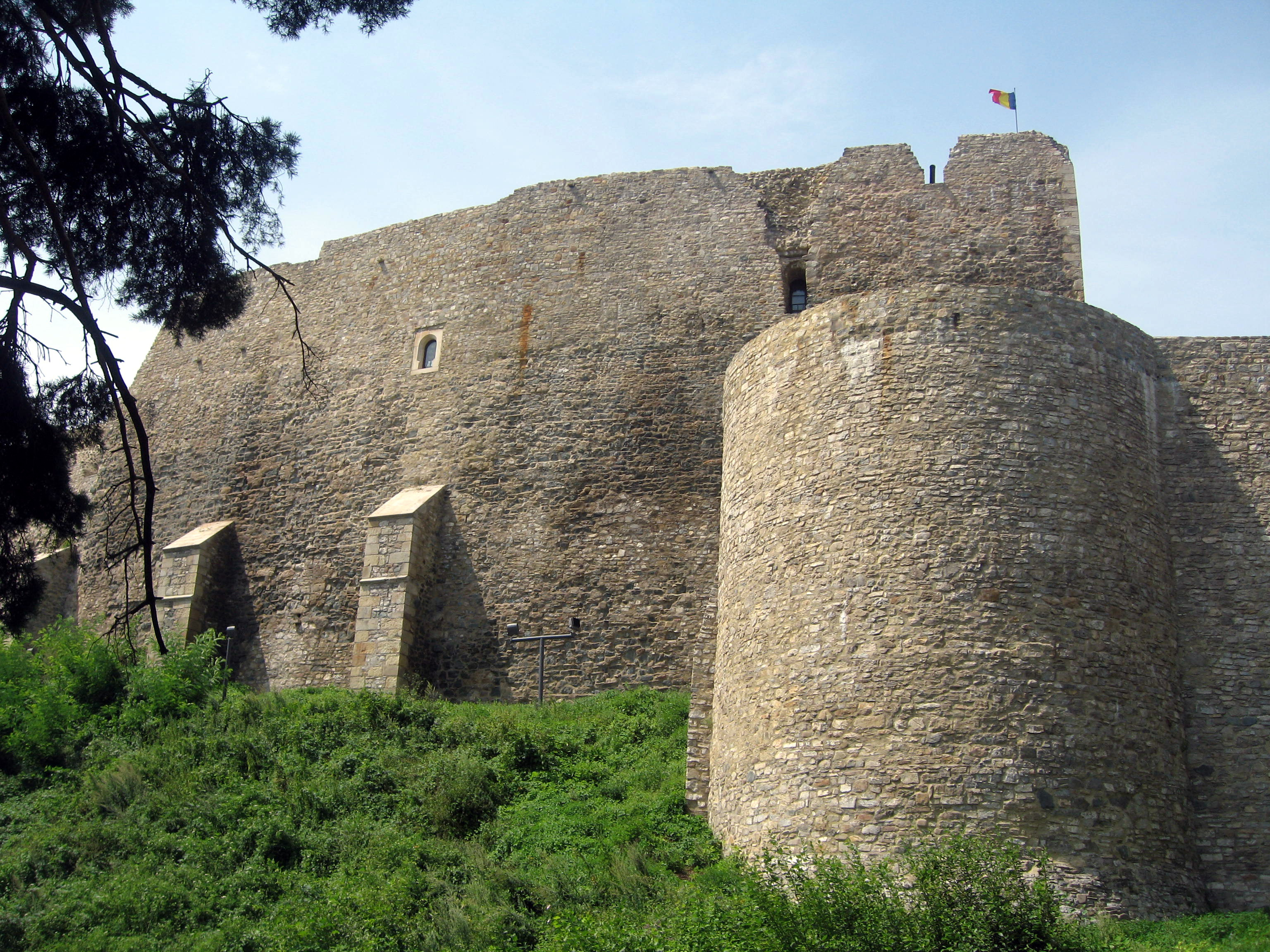 Neamț Citadel